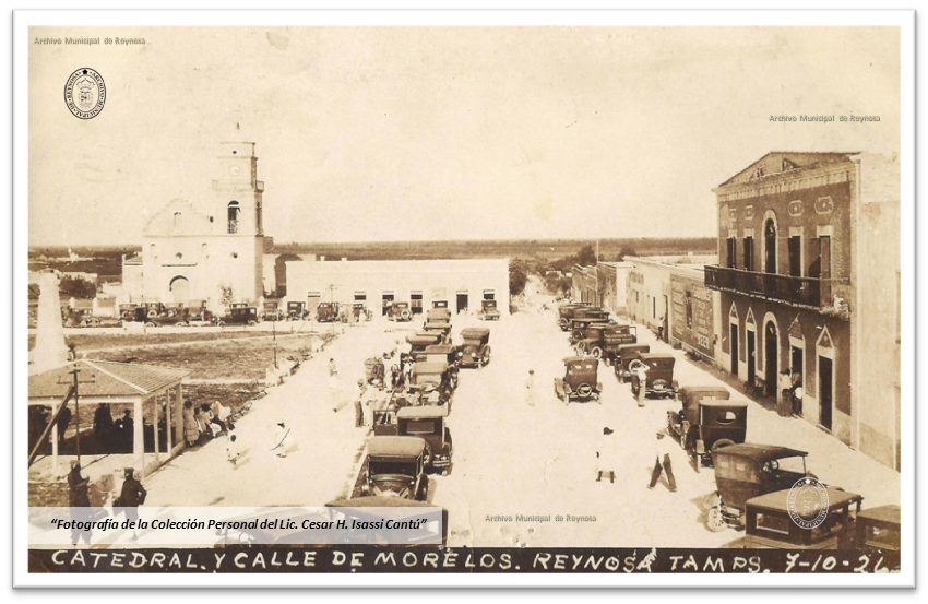 Hall, Church Square during the celebrations of the first International Bridge, July 10, 1926